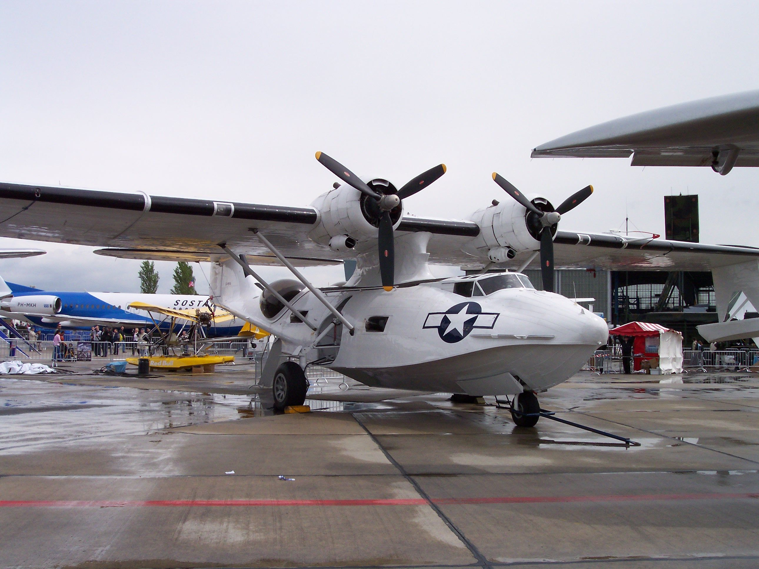 Consolidated PBY